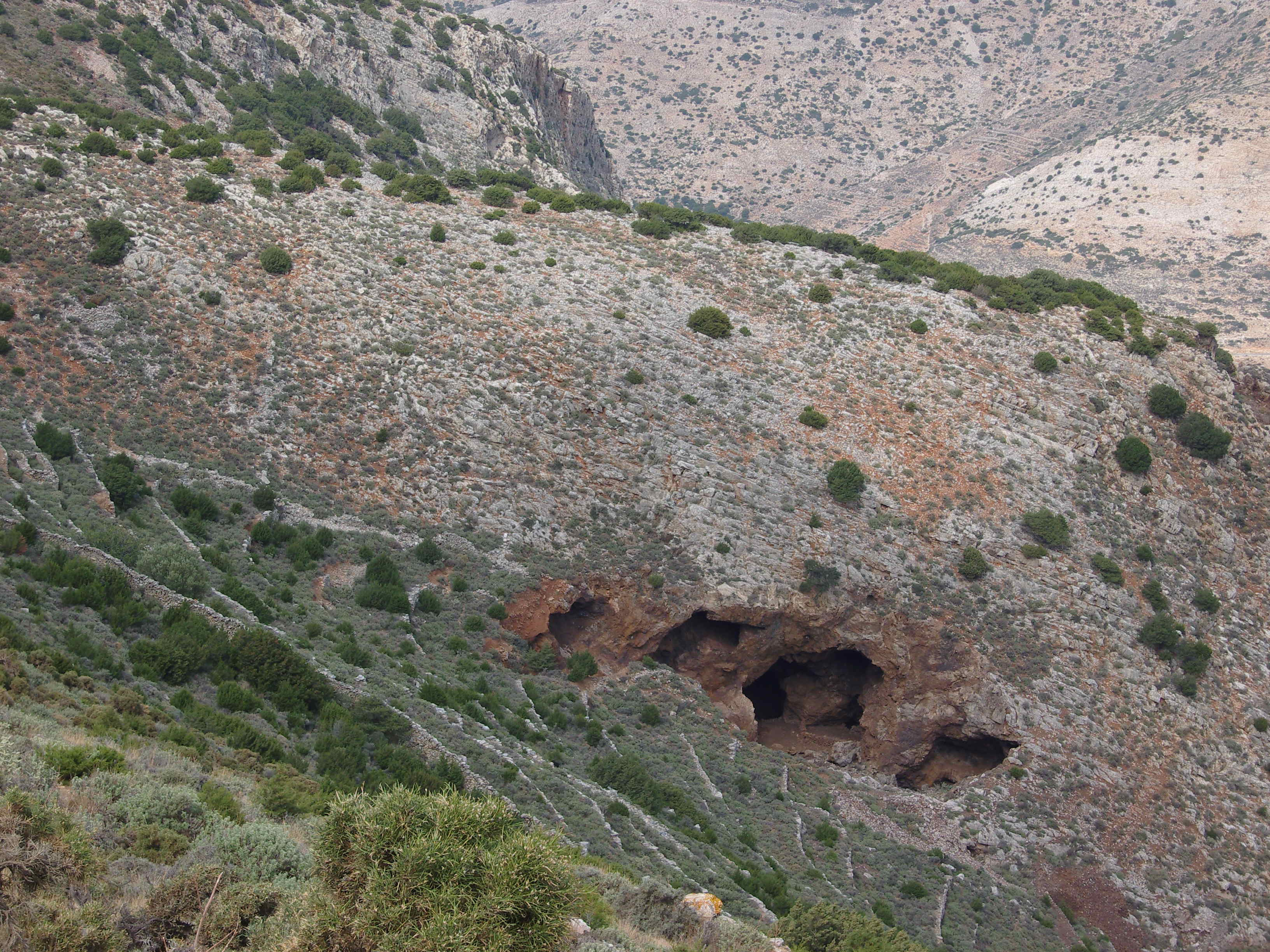 Kapsalos-Frase mine, Profitis Ilias, Sifnos island